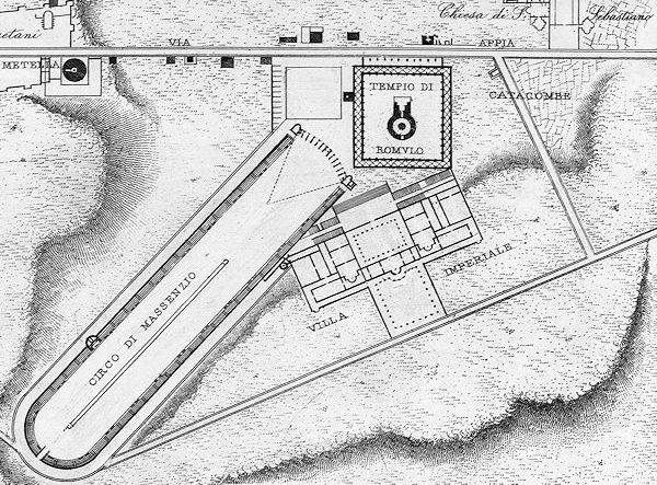 Mausoleum of Romulus / Villa of Maxentius / Circus of Maxentius site plan Luigi Canina, Gli Edifizi di Roma Antica...